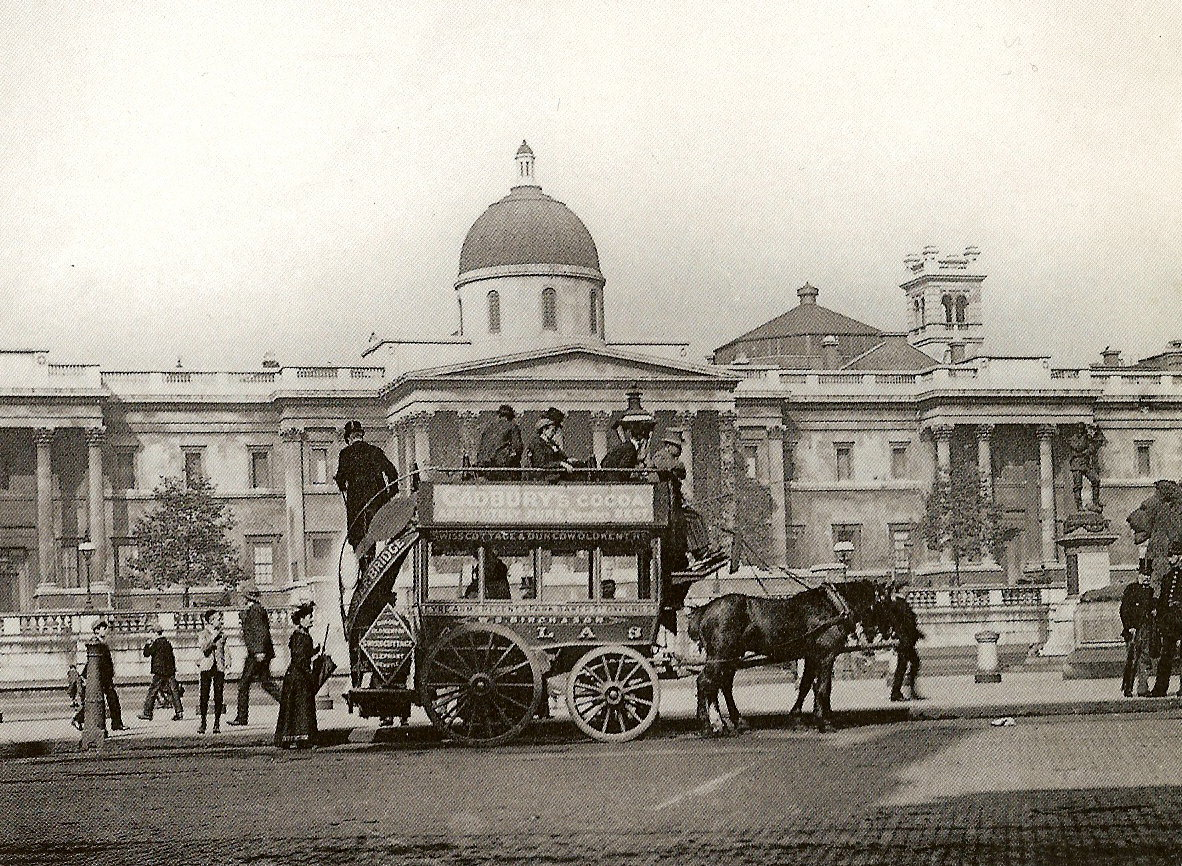 A Horse drawn bus in Trafalgar Square in front of the National Gallery. The word "Atlas" on the side of the bus is the name of the route it is assigned to. The Atlas route ran seven miles from Eyre Arms in St John's Wood to the Red Lion at Camberwell Gate this took just over an hour.